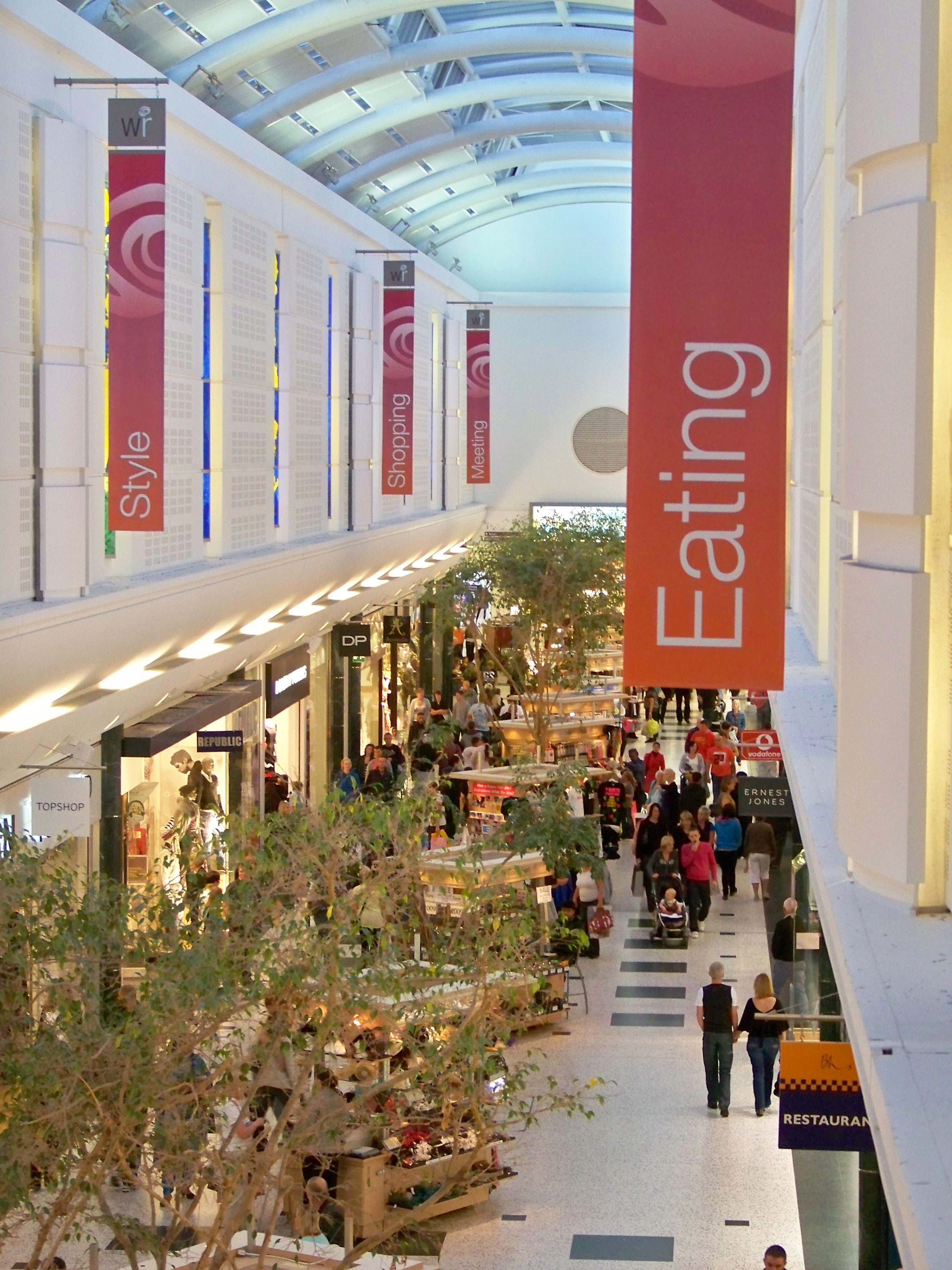 Looking from a first floor mezanine level along the ground floor precinct towards the Northern end of the shopping centre. Taken on the Evening of Thursday 24th September 2009